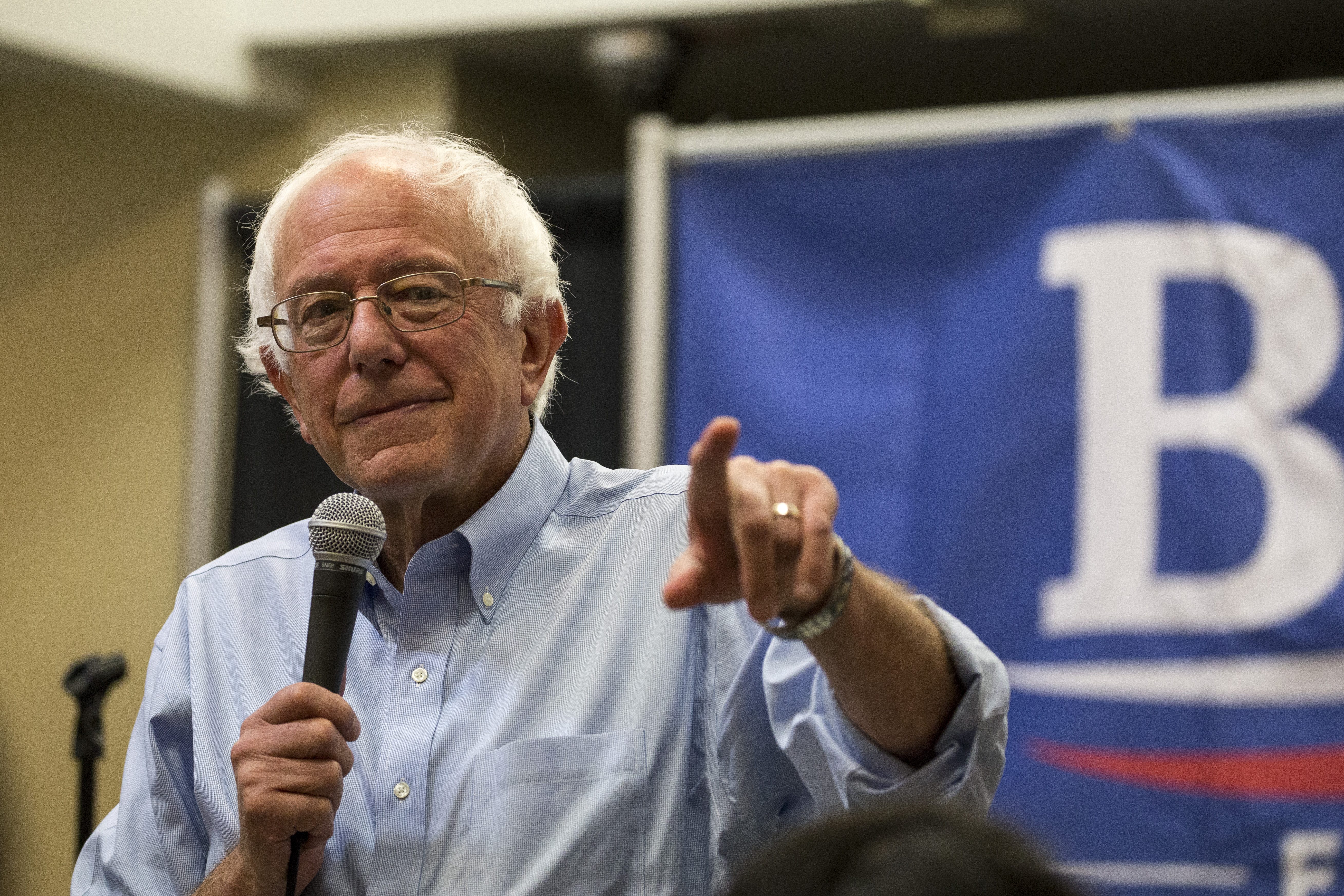 Photos from a Bernie Sanders for President campaign event. The audience was primarily students and young adults asking the U.S. Senator from Vermont about issues ranging from education to immigration to crime to child care. The event was held at Creative Visions, an organization founded by former Des Moines School Board member and current State Representative Ako Abdul-Samad.